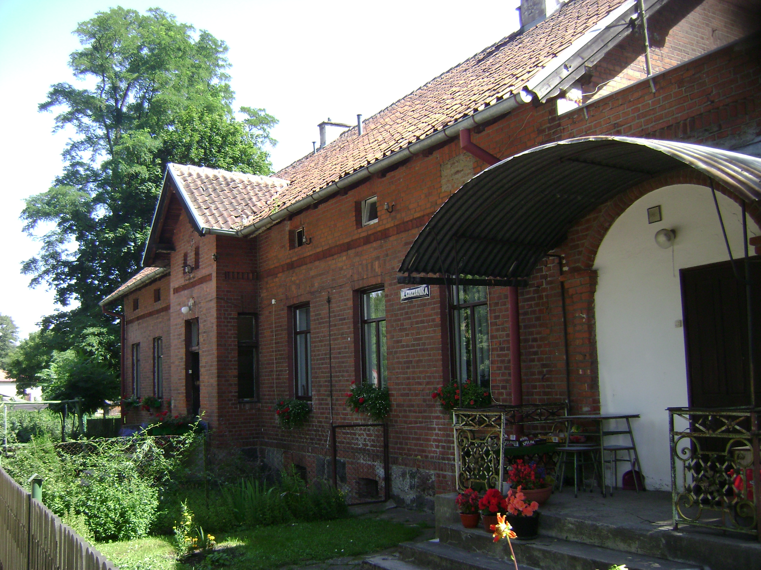 Poland. Gmina Ruciane-Nida. Guzianka